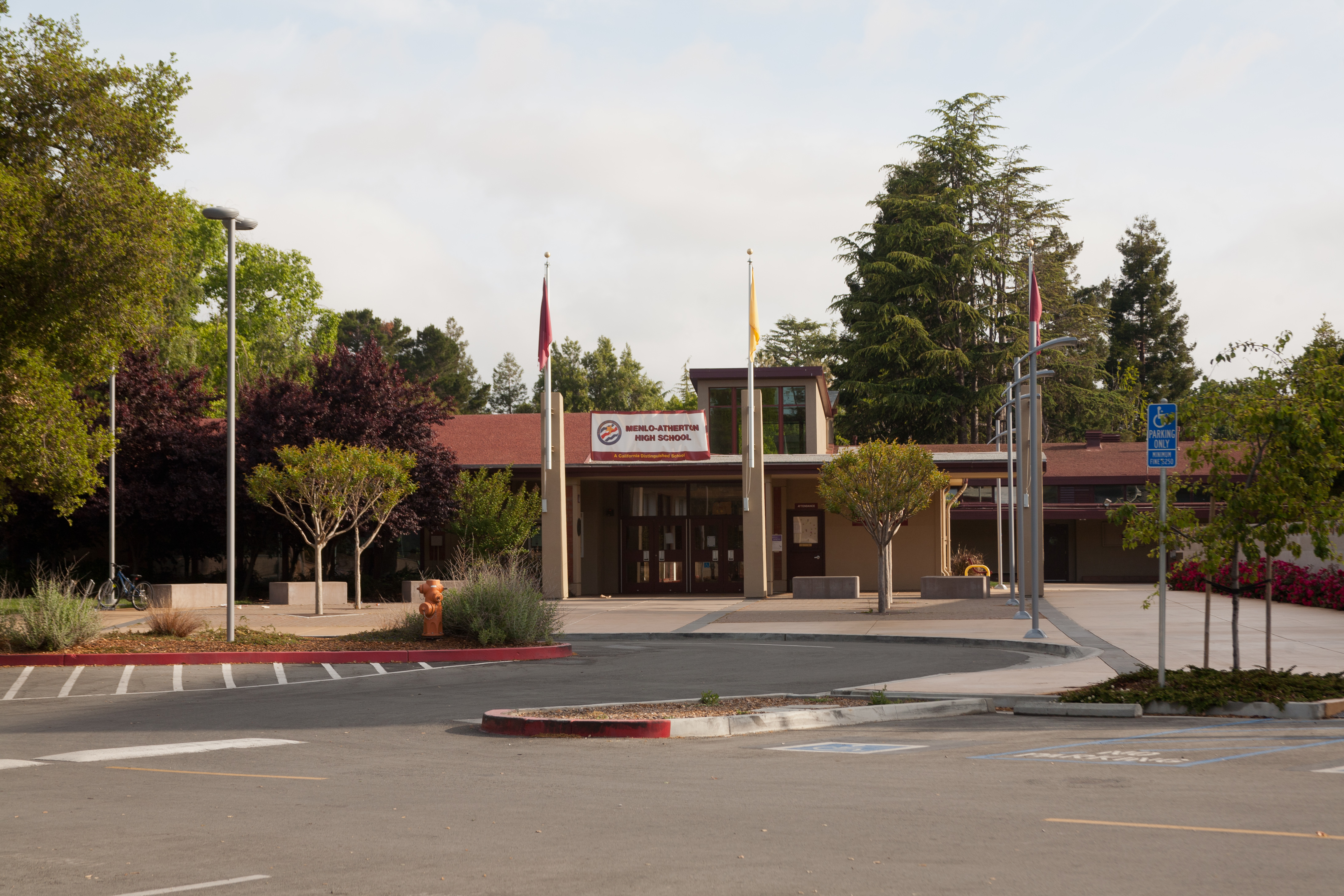 Front entrance of Menlo-Atherton High School in Atherton, California.